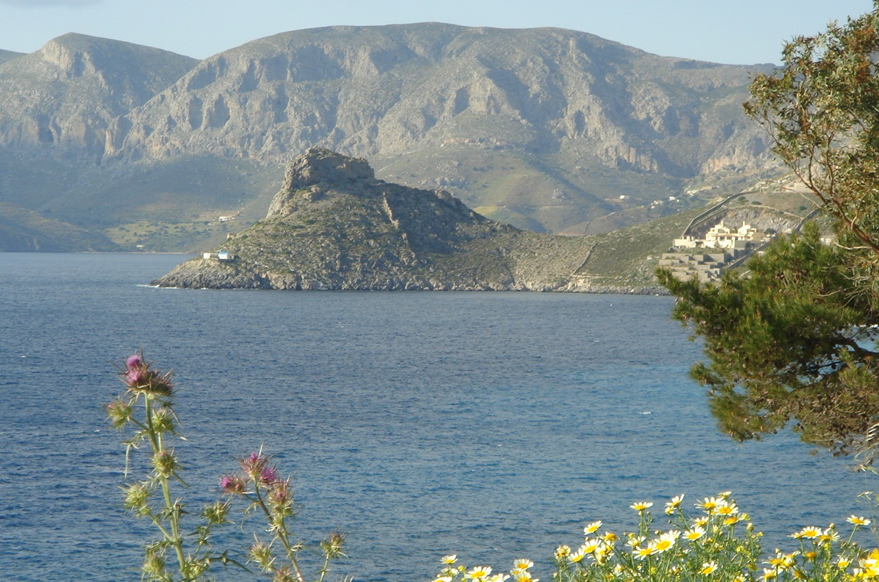 Kastelli, ruins of Medieval fortress, Kalymnos